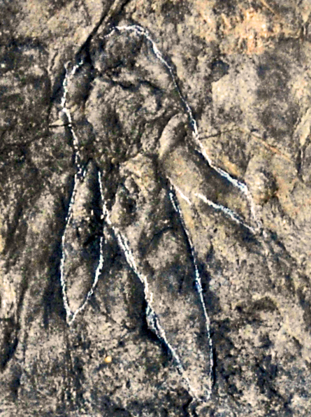 Grallator toscanus from Monte Pisano (Italy), on display at the Museo di Storia Naturale e del Territorio, Calci (Province Pisa), Italy